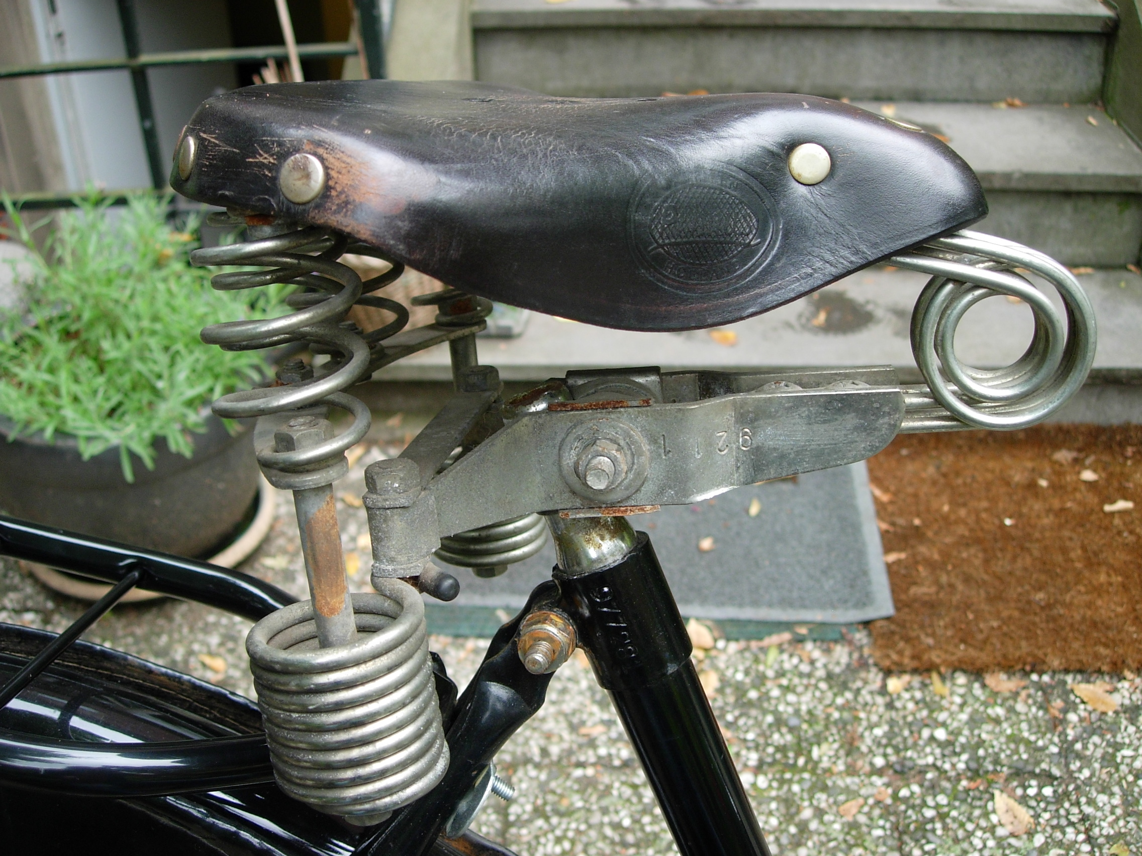 Gazelle vintage bicycle. Bicycle saddle Primus 214 Ladies manufactured by Lepper ab